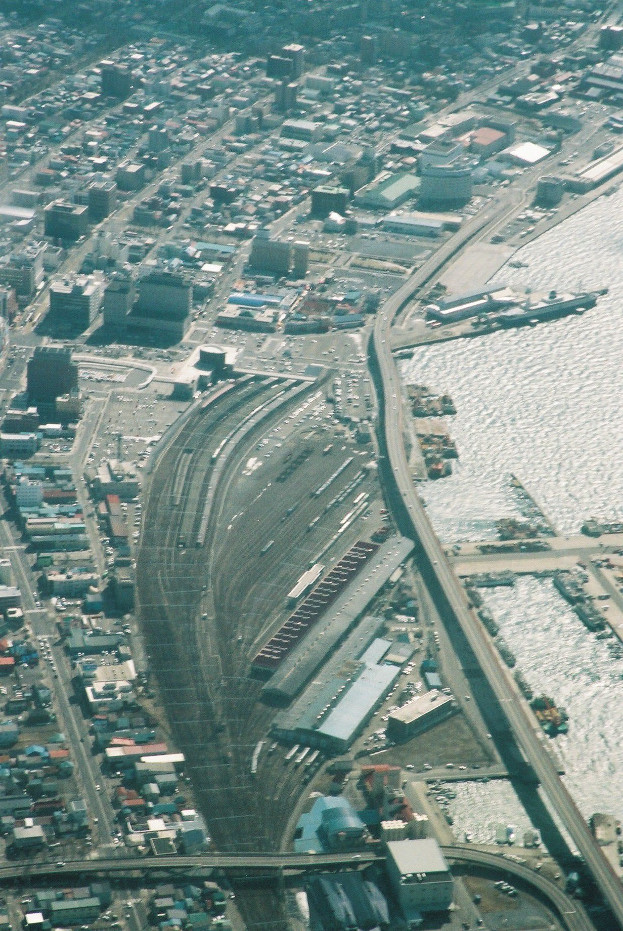 Aerial Photograph of Hakodate Station. / 奥尻島へ向かう機窓から見た函館駅。 (2006/03/21 In Flight, ADK335, Hakodate, Hokkaido, JAPAN)